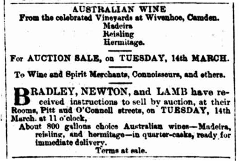 Advertisement for wines produced at Wivenhoe Estate Camden in 1876